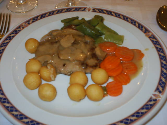 Steak with potatoes and carrots